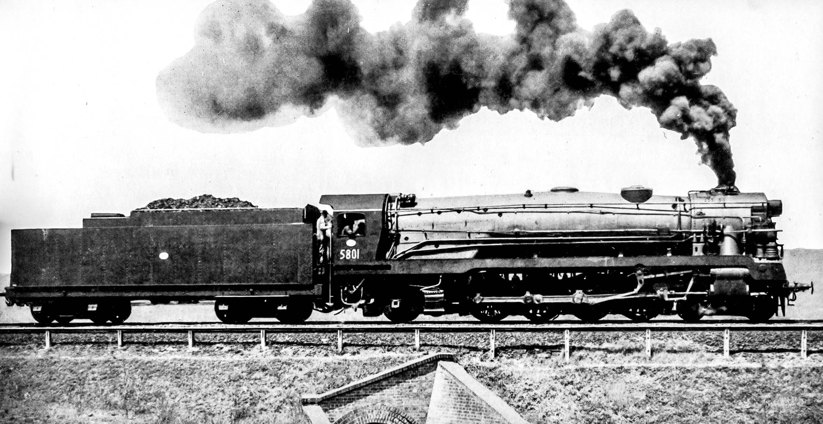 NSWGR Class D58 Locomotive